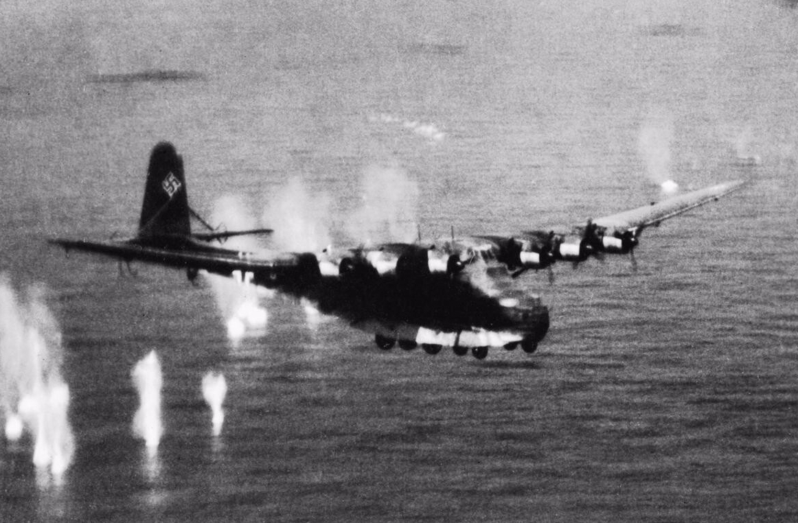 A Messerschmitt Me 263 powered glider under attack off Cape Corse, Corsica, by a Martin Marauder Mark I, flown by the Commanding Officer of No. 14 Squadron RAF, Wing Commander W Maydwell. The aircraft crash-landed on the shore and disintegrated.